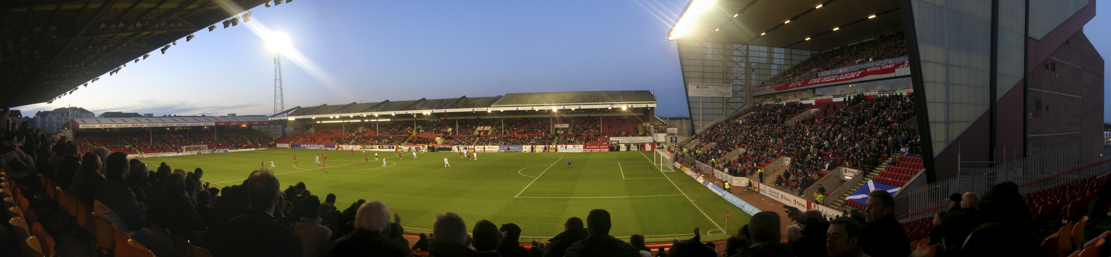 Aberdeen, Scotland-Pittodrie Stadium, home of Aberdeen F.C./Pittodrie Stadium from South-East Stand (Away Support). Aberdeen Vs St.Mirren - 18 Nov 2006